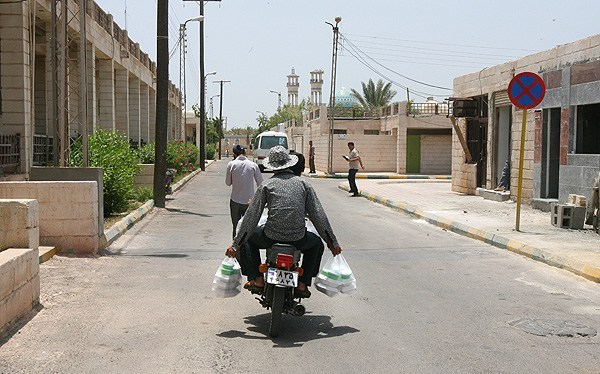 Abu Musa Island